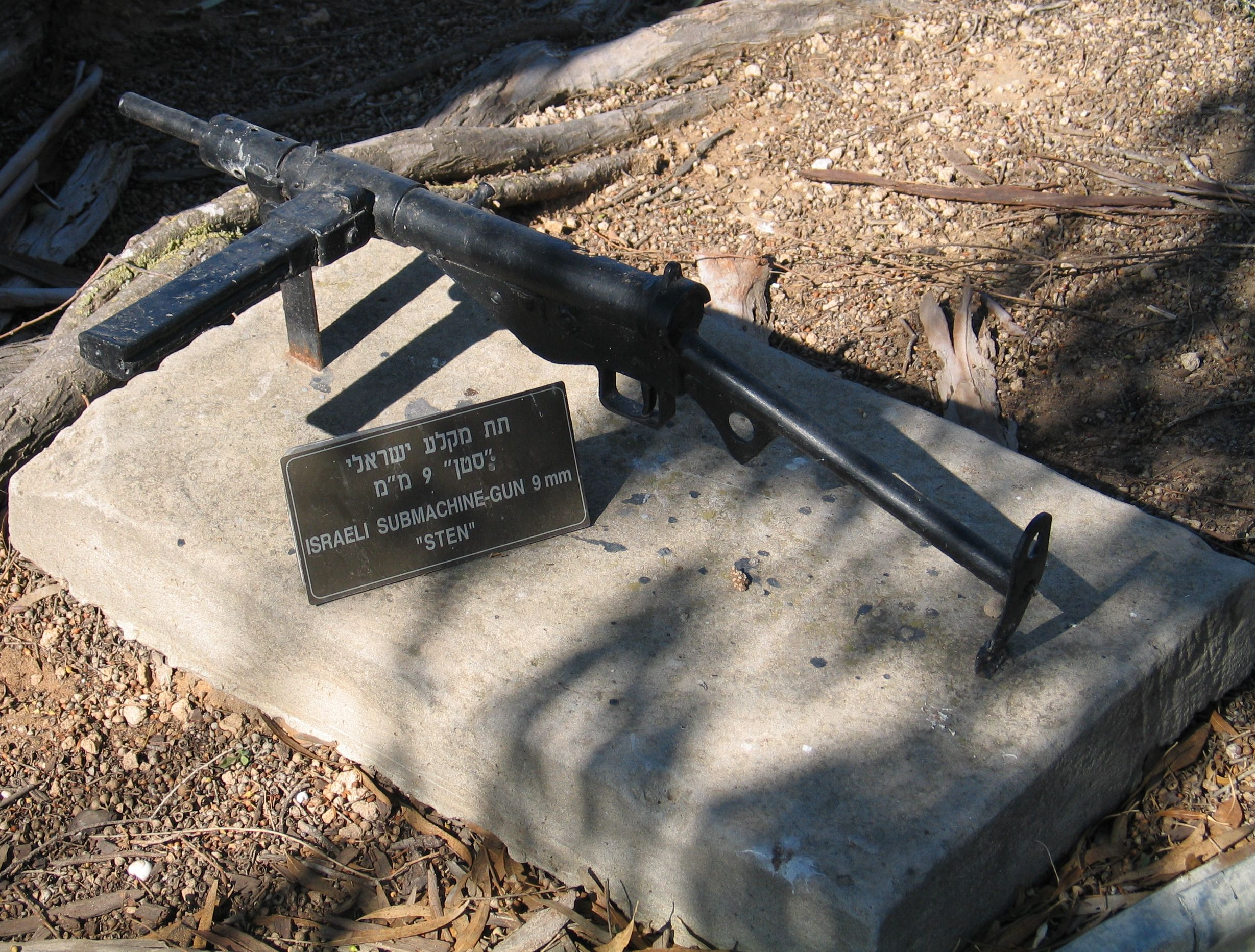 Sten Mk II submachine gun at Yad Mordechai battlefield reconstruction site.